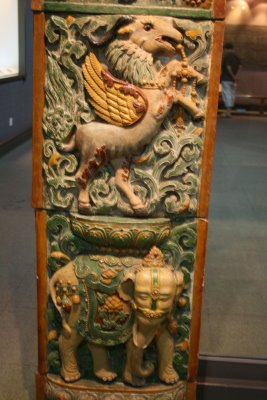 An excavated portion of the Chinese Ming Dynasty (1368-1644 AD) doorway of the now destroyed Porcelain Tower of Nanjing, built during the reign of the Yongle Emperor (1402-1424 AD).